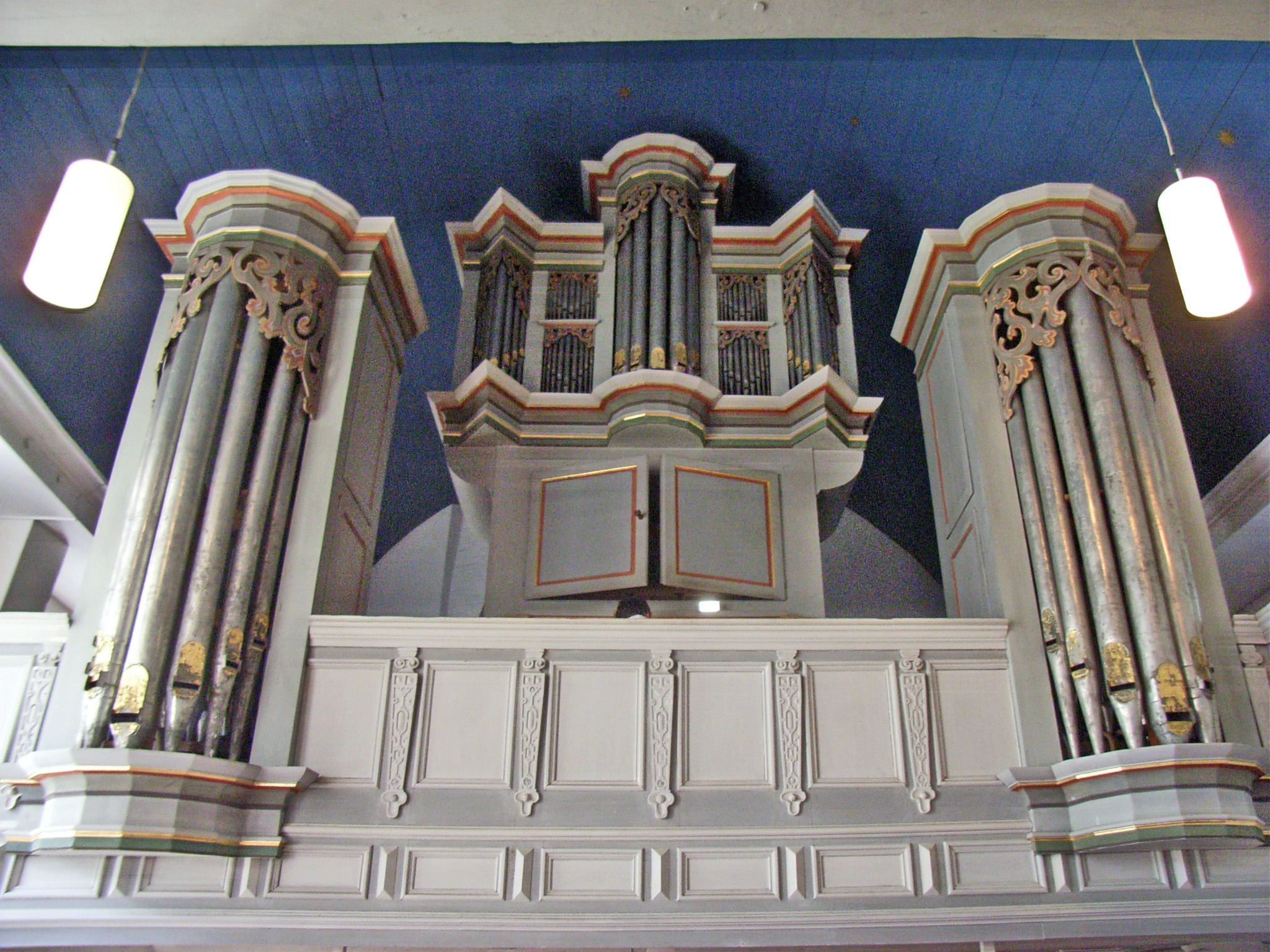 Organ in Hollern